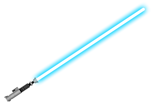 An original drawing of a "Lightsaber" made in Photoshop.